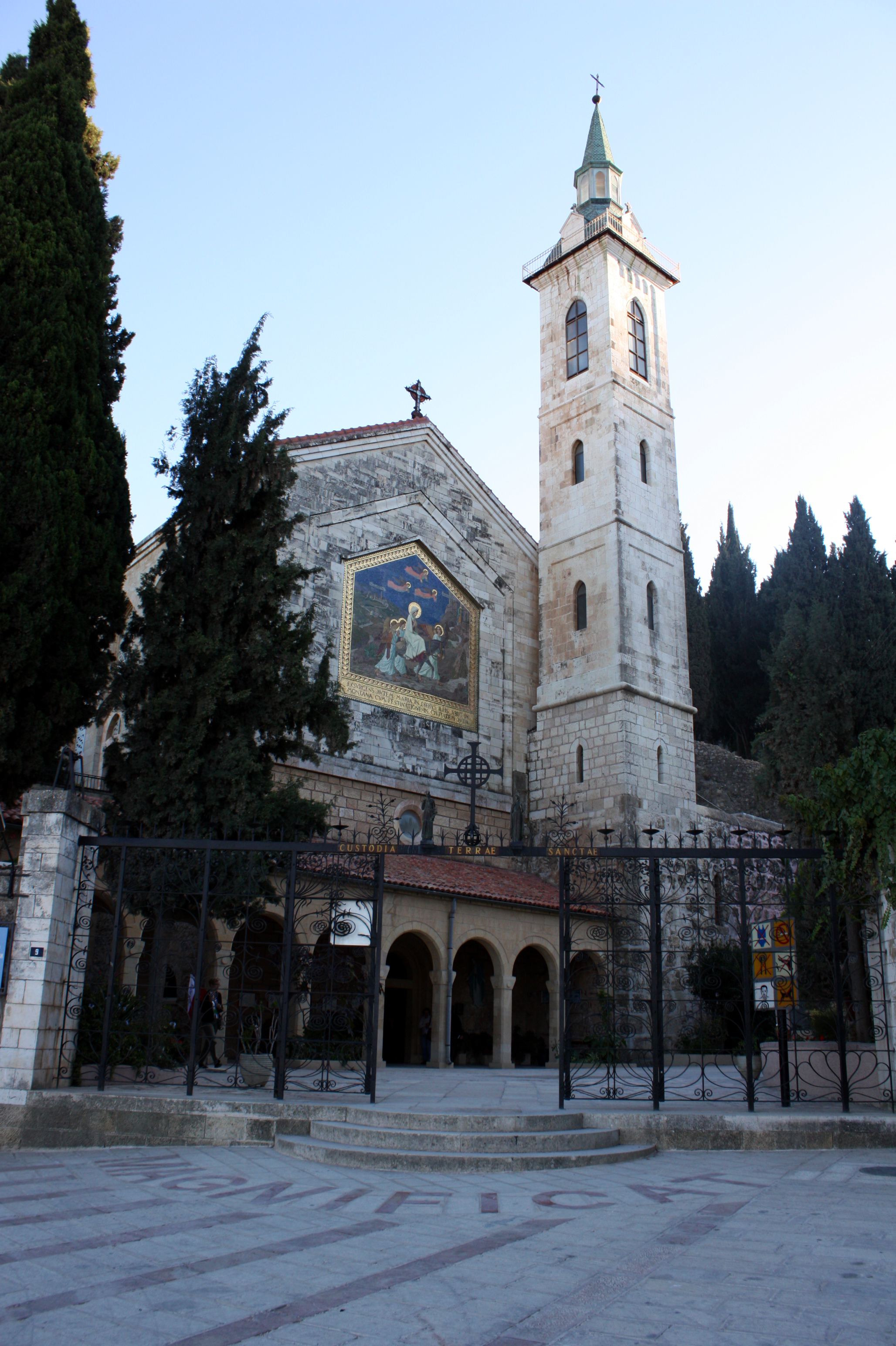 Church of the Visitation - Ein Kerem, Jerusalem